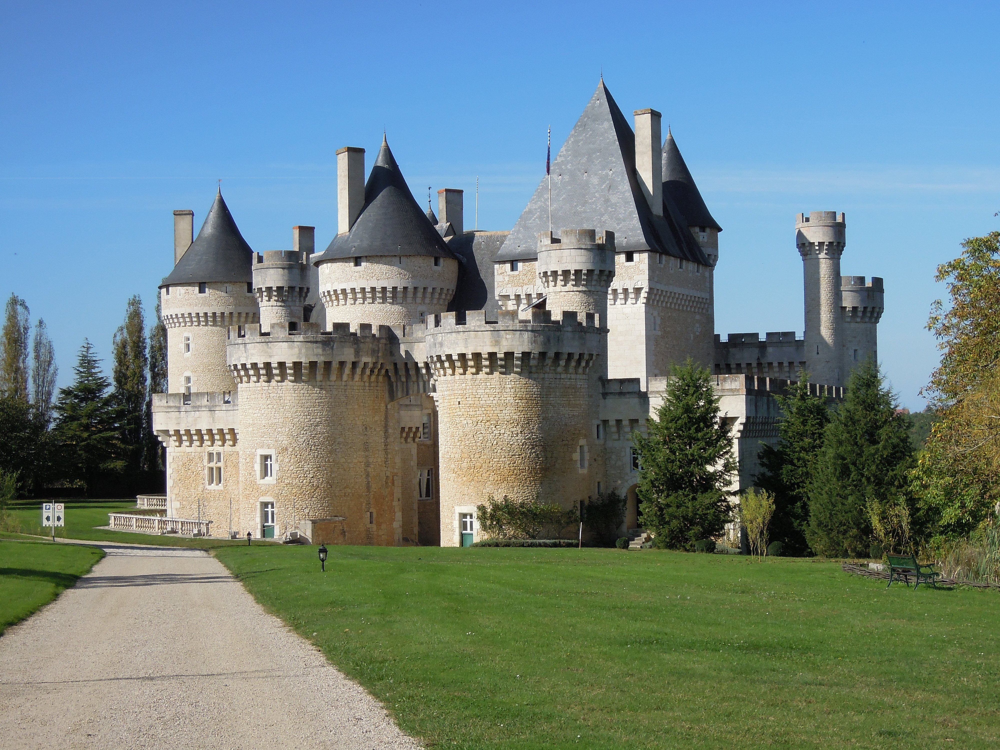 Château de Chabenet at Le Pont-Chrétien-Chabenet, Indre, France.